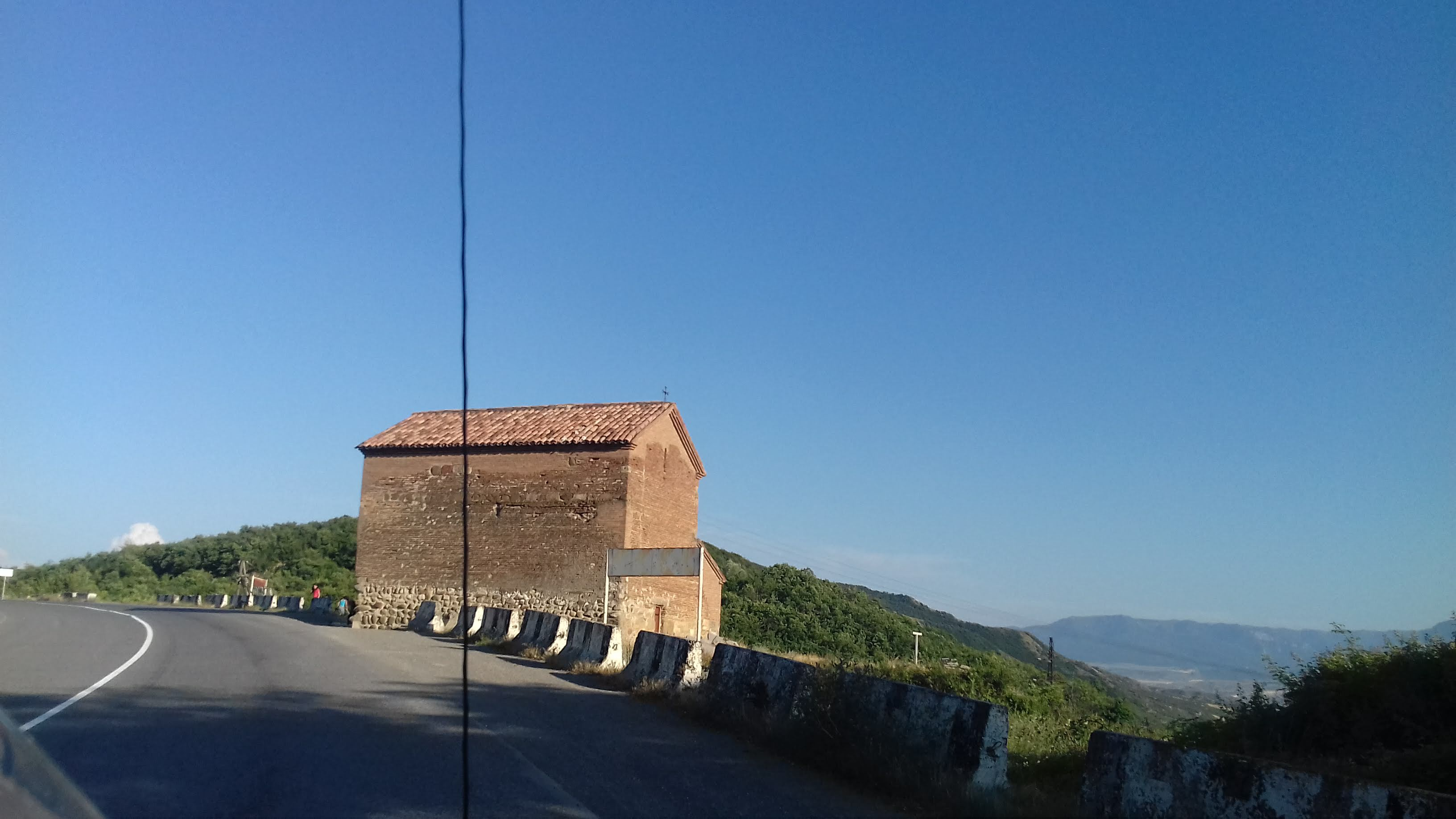 Igoeti Tsiteli Saqdari ("Red Church"), Georgia